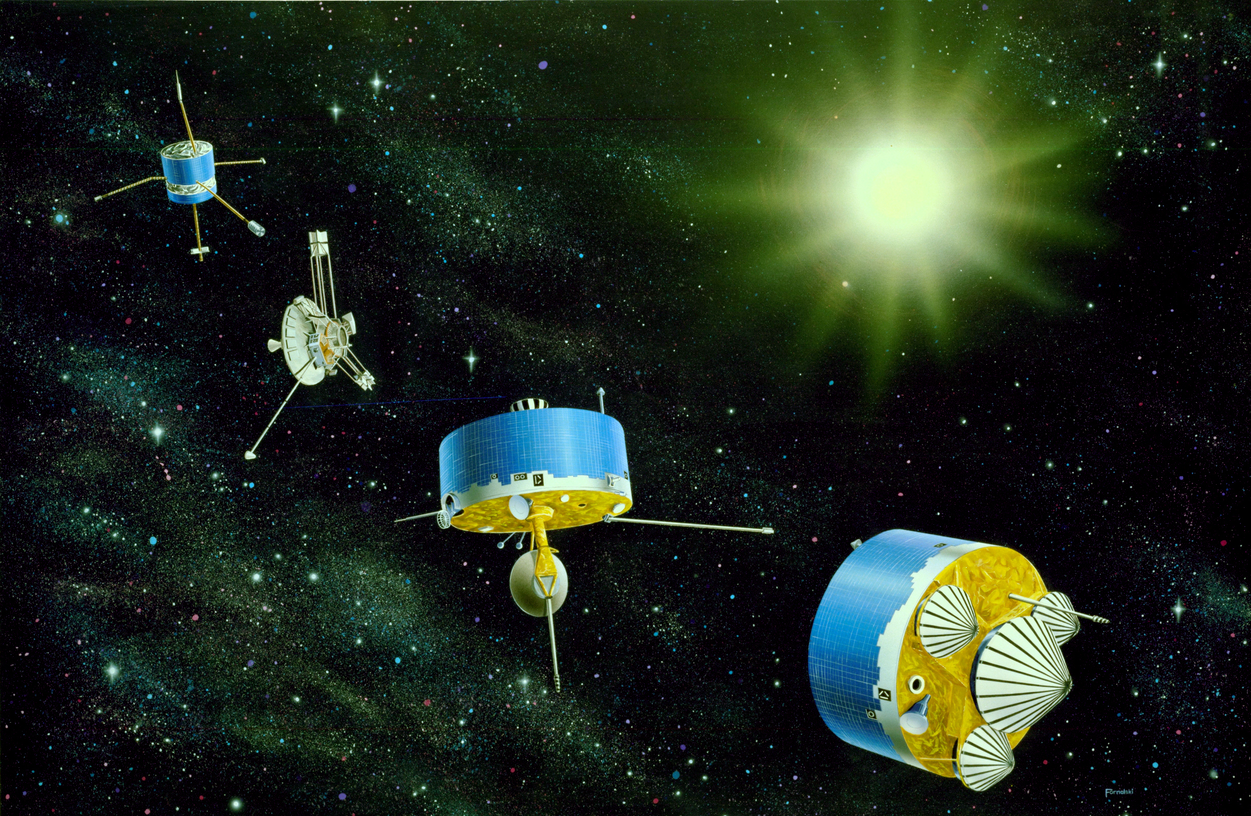 Artist: Fornalski Pioneer Spacecraft Composite "The Pioneer Family" Probes 6-9, 10, 11 and Venus Orbiter and Multiprobe or Bus (12-13)